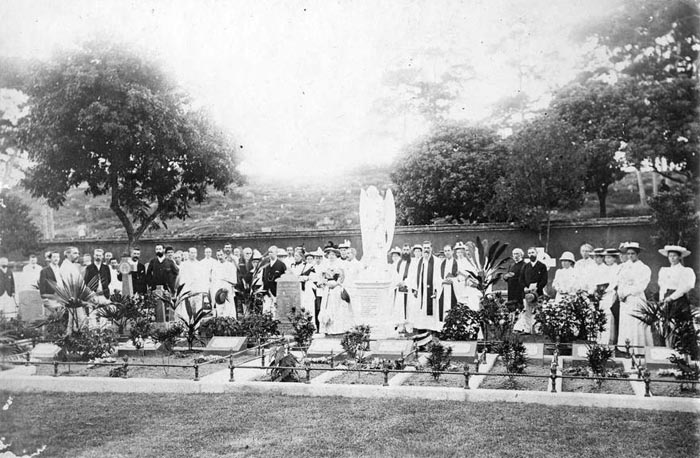 The Cemetery of the Victims in Kucheng Massacre.